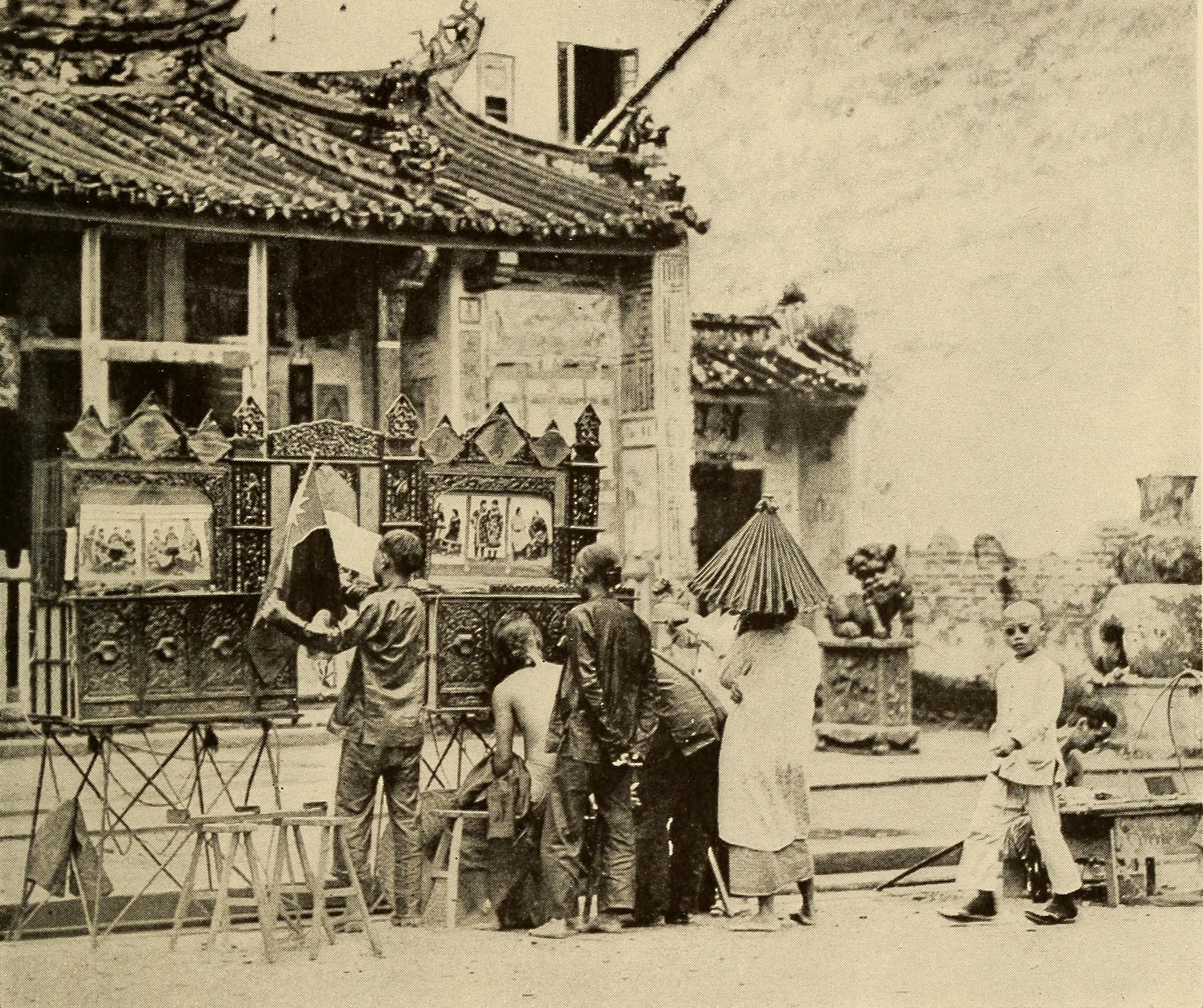 The National geographic magazine.